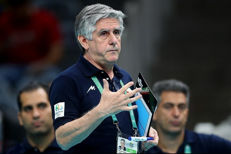 Volleyball, match between Iran and Egypt at the Olympic Games in 2016